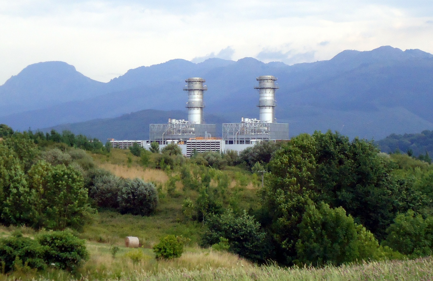 Power station in Boroa (Amorebieta-Etxano, Biscay, Basque Country)